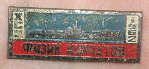 The image of the Soviet ship Fizik Kurchatov on an enamel badge. 1962 year.